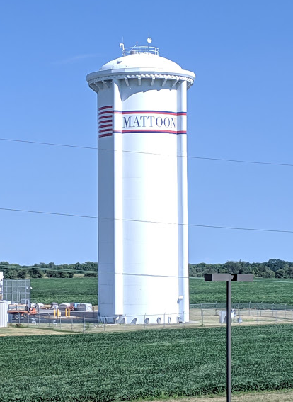 Mattoon, IL water tower on the eastern edge of town.